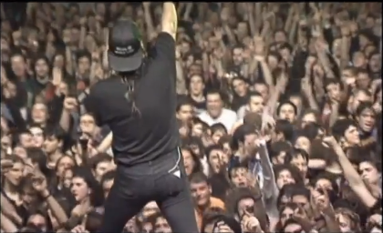 Preformer Blaze Bayley infront of live audience 1998. This is my own work.